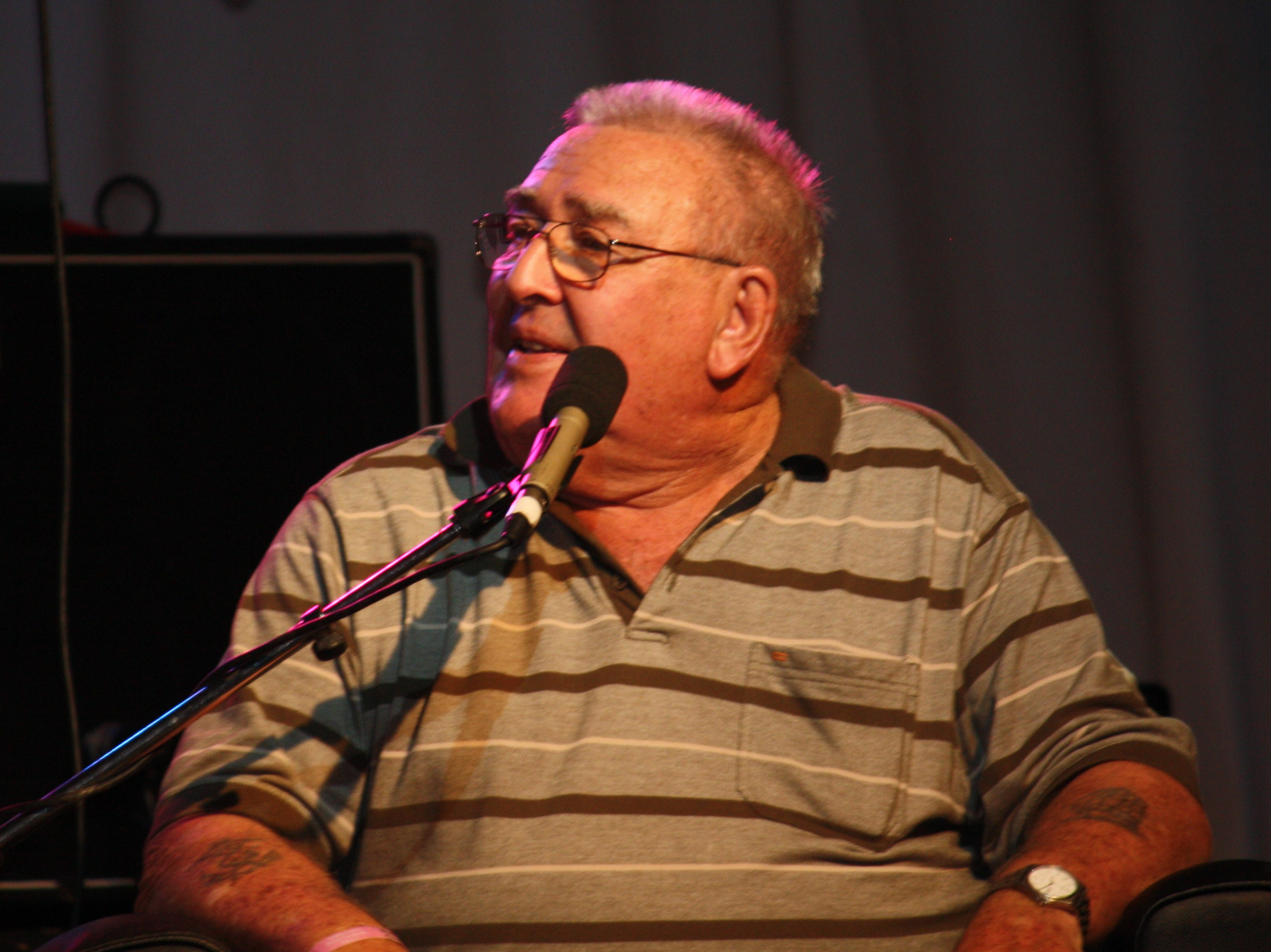 Iconic Australian folk musician Ted Egan served as Administrator of the Northern Territory from 2003 to 2007. Ted has released 28 albums, mostly themed around outback life, history and Aboriginal affairs. He has been a consistent performer and tourer with his choice of instrument being an empty beer carton played by tapping with his hands. Ted is very keen to see the preservation of the remaining 40, out of an estimated 300 Aboriginal languages in use in 1788. His kit Kutju (Go forward) Australia, is an attempt to promote the singing of the Australian national anthem Advance Australia Fair in an Australian Aboriginal language. For more information